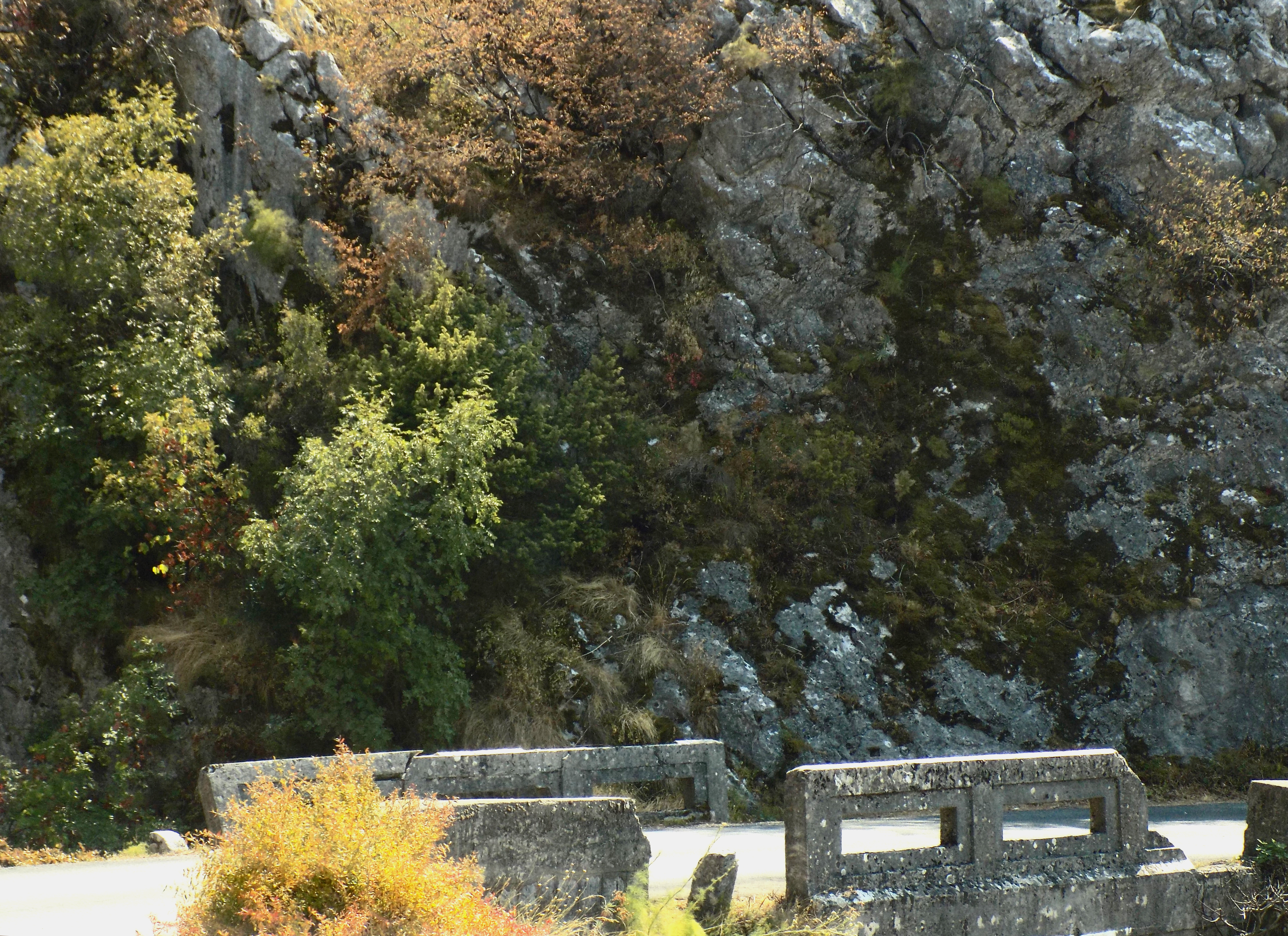 R-1 regional road (Montenegro) - an old bridge over one of the occasional torrential streams